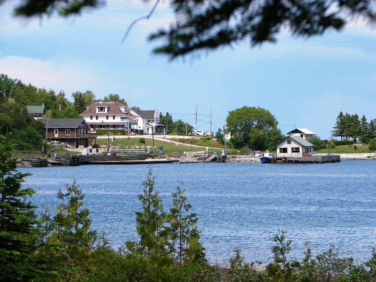 Meldrum Bay, Manitoulin Island, Ontario, Canada